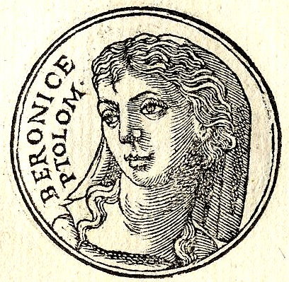 Berenice I, daughter of Magas, was first the wife of Philip, an obscure Macedonian nobleman, with whom she gave birth to Antigone and the future Magas of Cyrene.